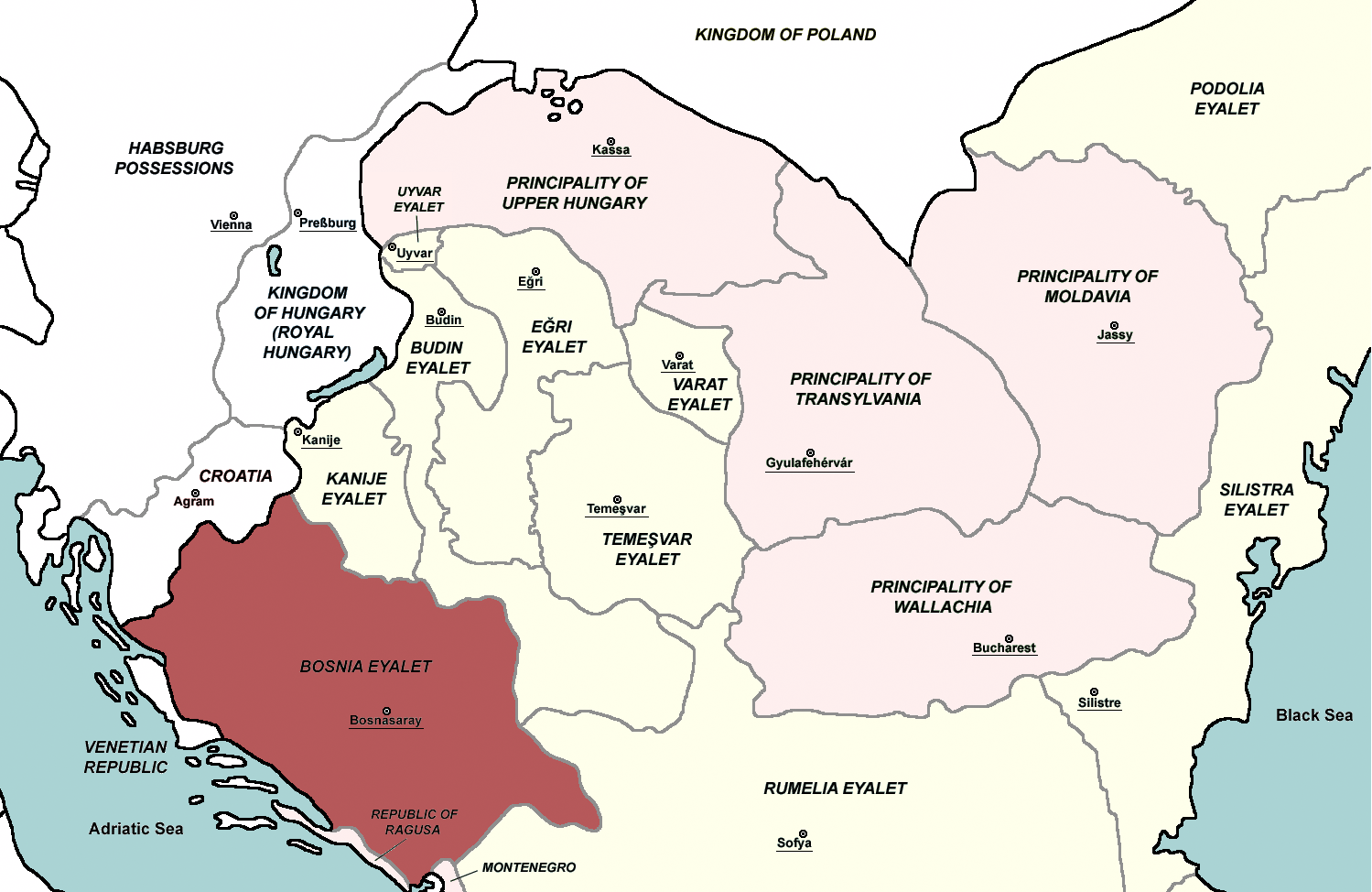 Bosnia Eyalet in 1683. Tributary states of the Ottoman Empire are shown in pink.